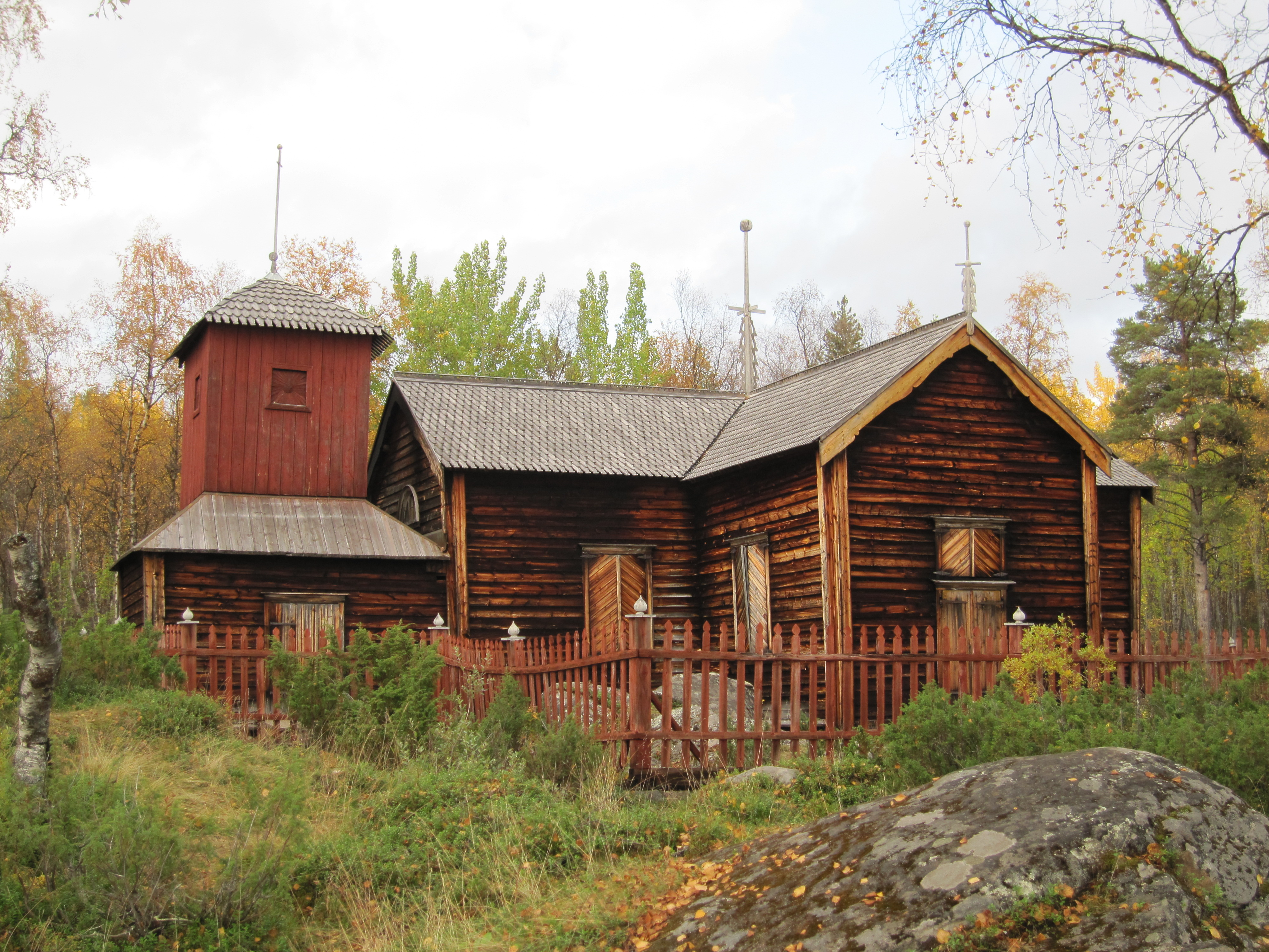 Pielpajärvi wilderness church in Inari, Finland. The church was completed in the year 1760.